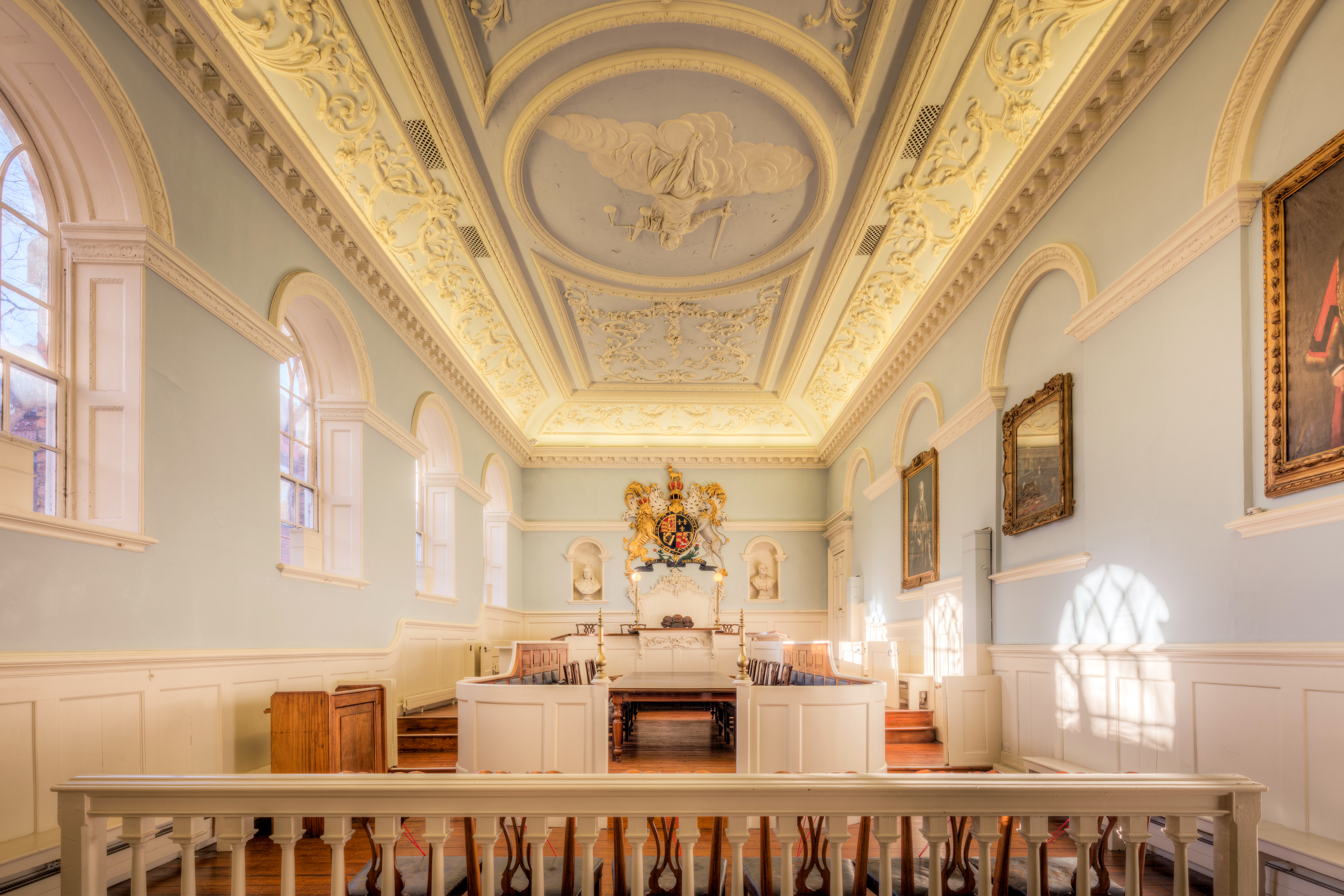 Here is an hdr photograph taken from the courtroom inside Beverley Guildhall. Located in Beverley, East Riding of Yorkshire, England.